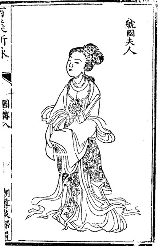 Lady Guoguo from the 18th century work Hundred Poems of Beautiful Women (Bai Mei Xin Yong Tu Zhuan 百美新詠圖傳) by Yan Xiyuan (颜希源). Woodblock print of drawing by Wang Hui 王翙